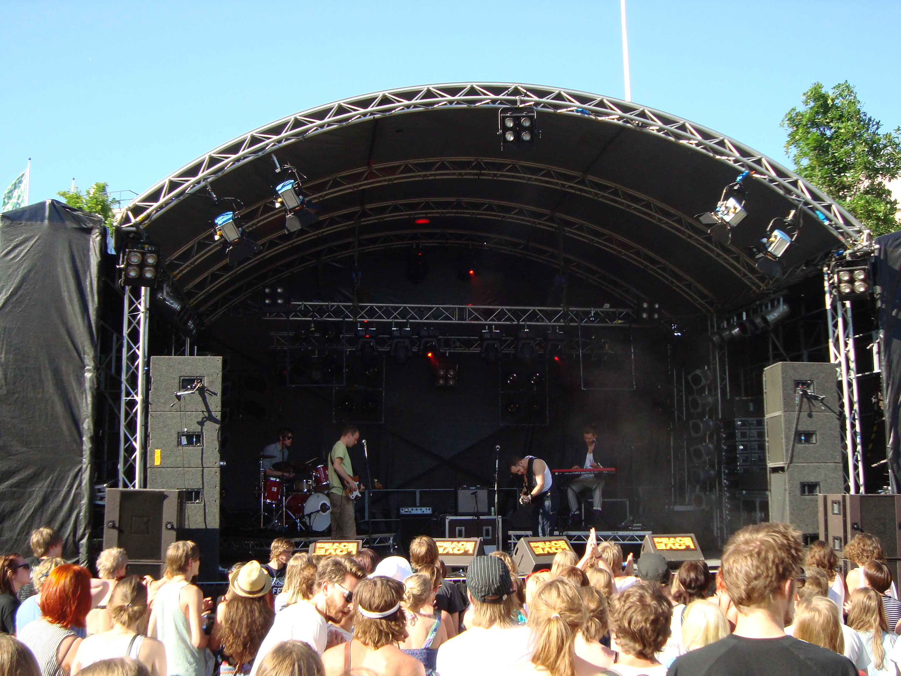 Pop band 'Elias and the Wizzkids' at Peace and Love festival, Borlänge, Sweden.